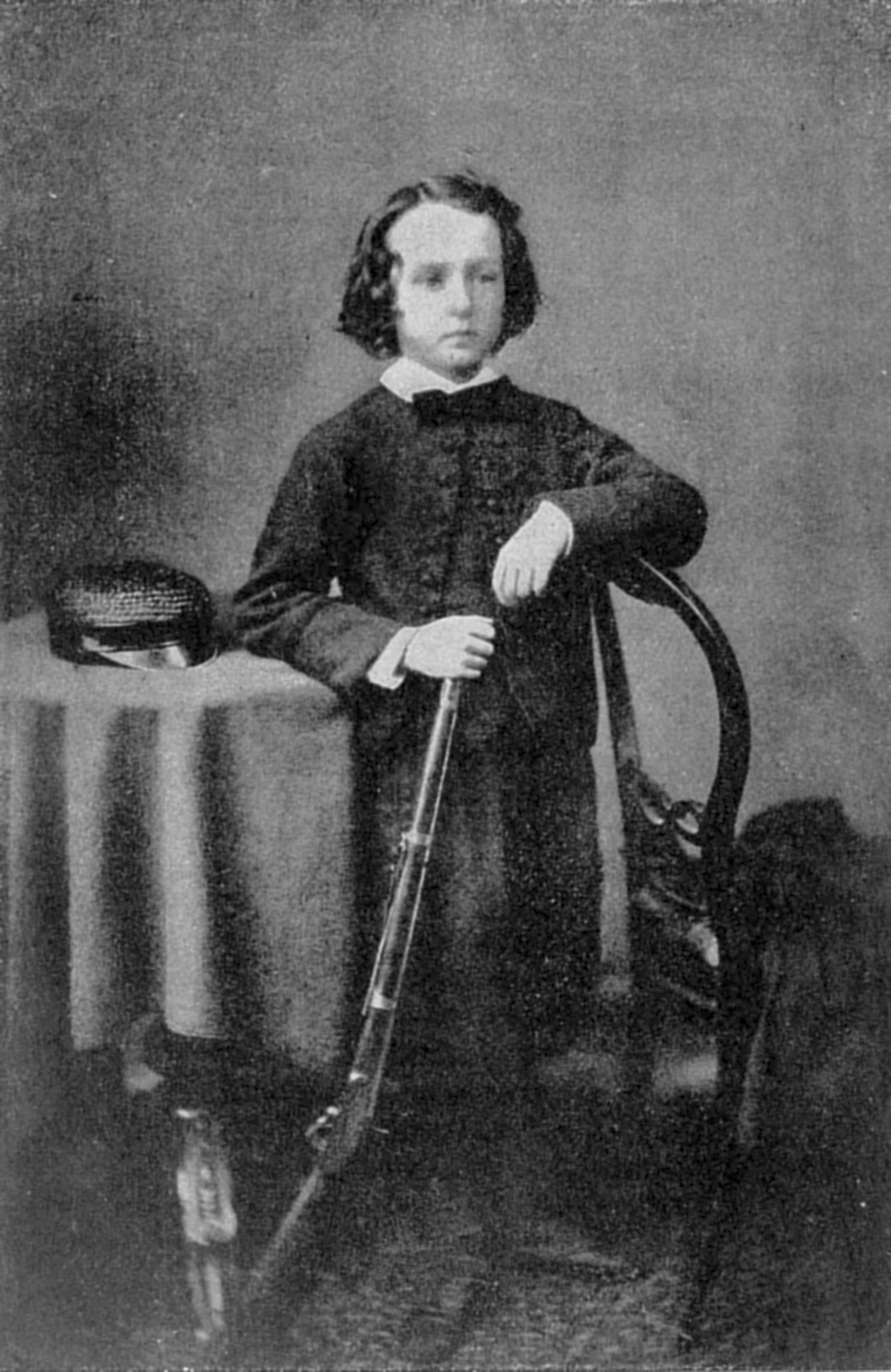 Picture of Cecil Rhodes as a boy